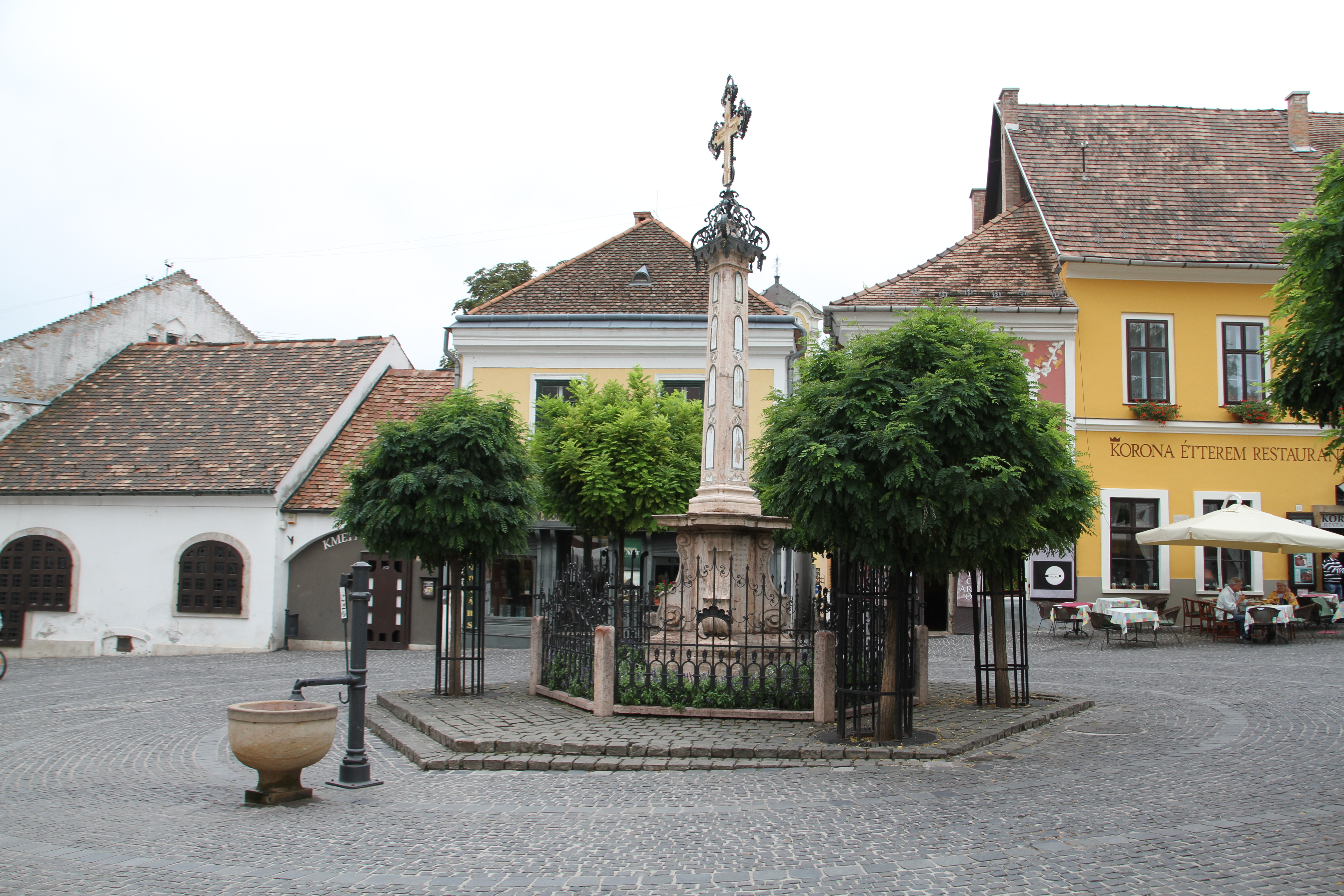 Main Square (Fő tér), Szentendre, Hungary